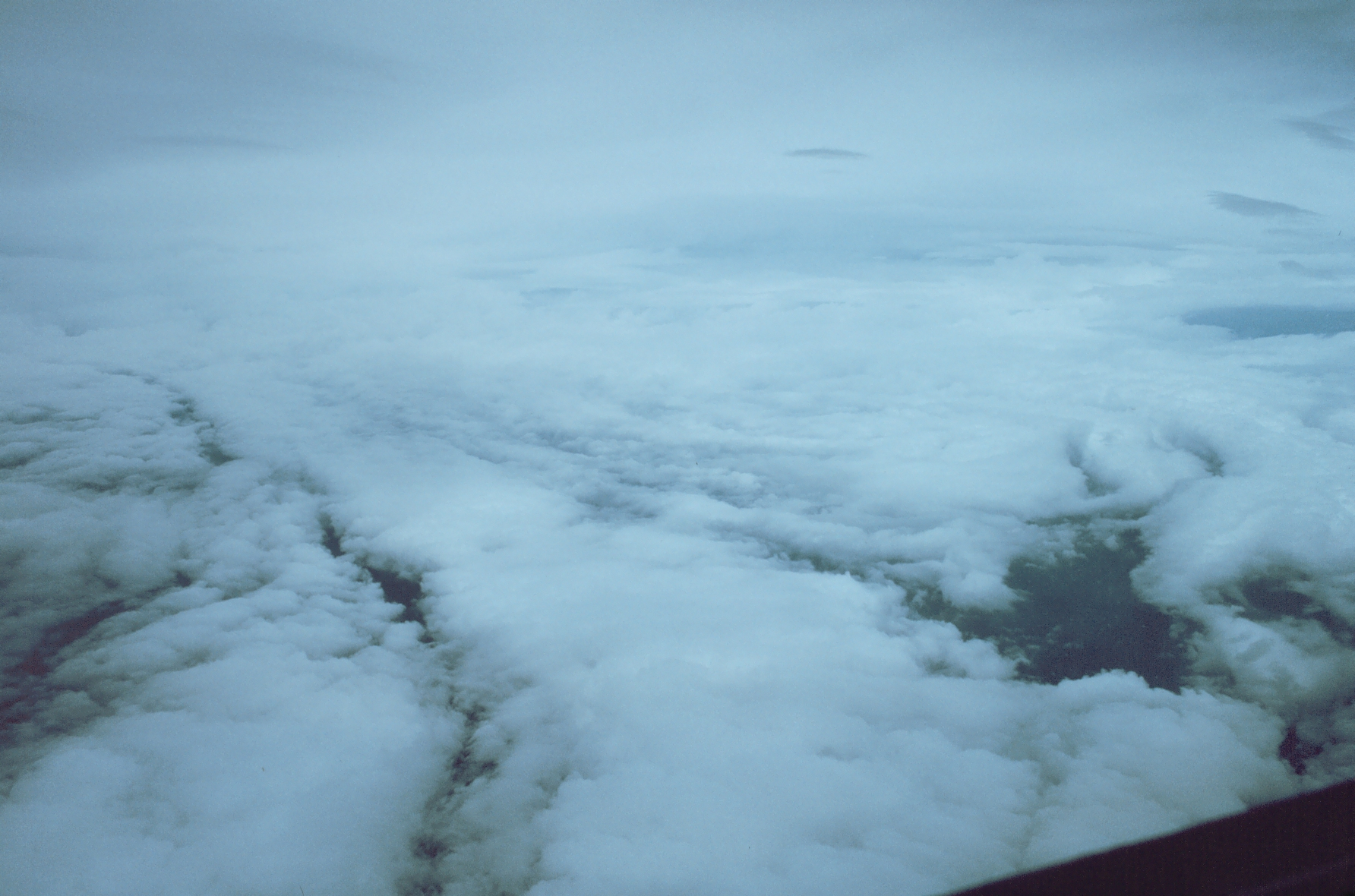 National Hurricane Center's Photo of Hurricane Emmy of 1976.